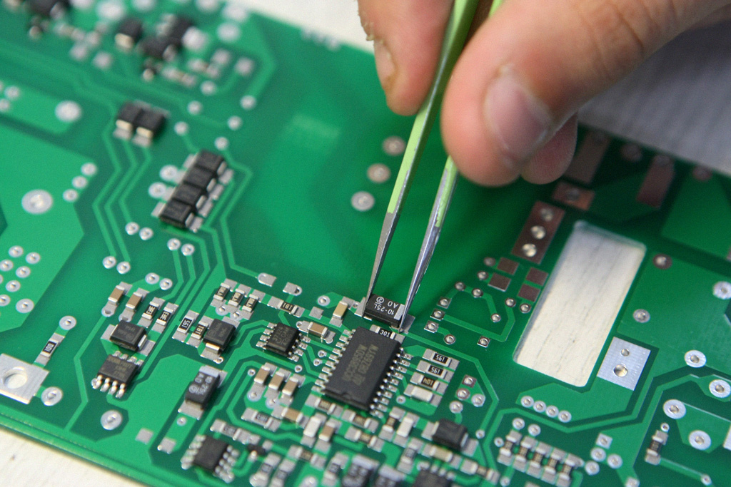 “Construction of a technopark in Akademgorodok, Novosibirsk”. Center for Academic Technology Software technopark in Akademogorsk - the production area where residents of the industrial park are working on scientific developments. An employee of the "SANT" company works on installation and soldering of CHIP-components.